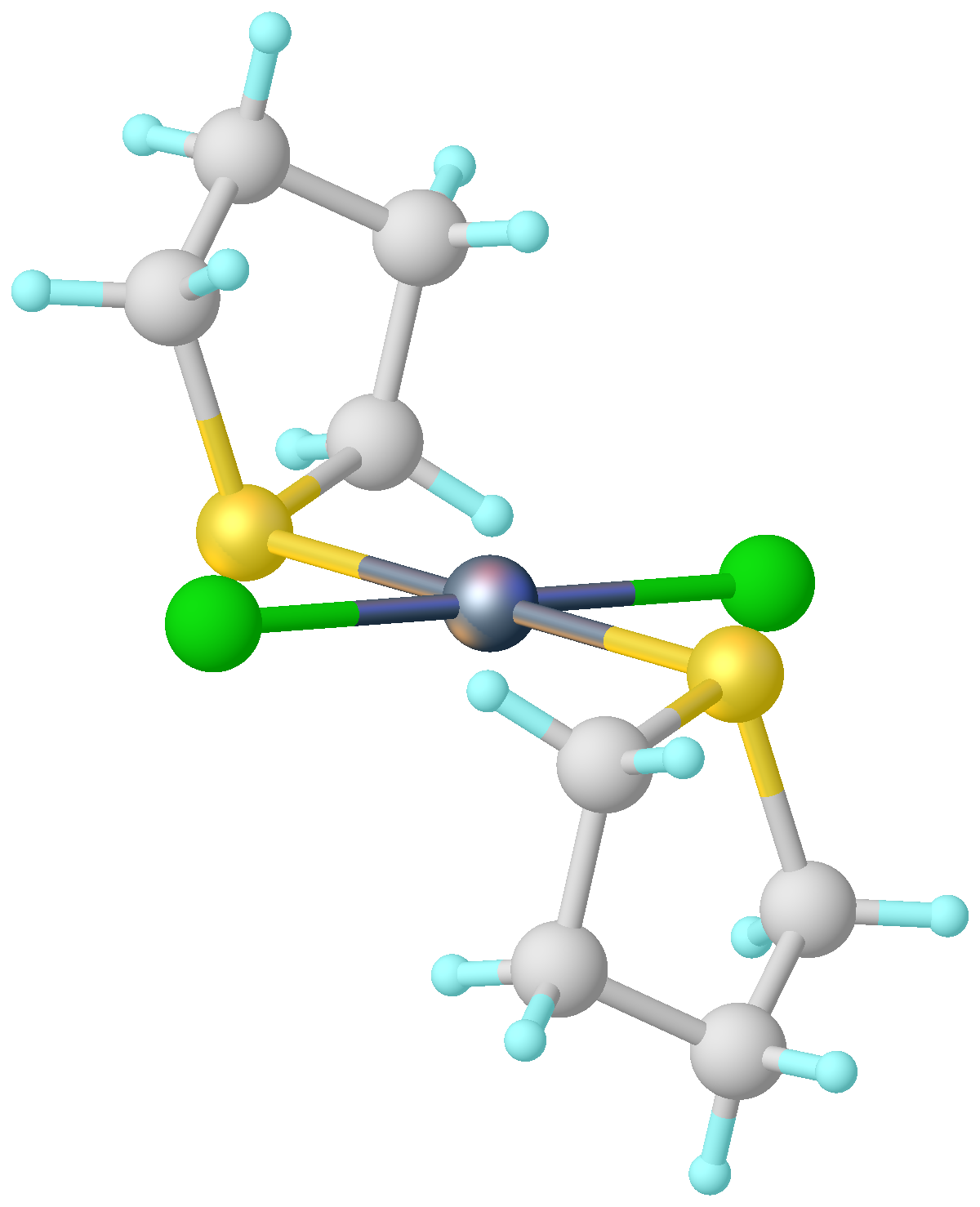 structure of SeCl2(tetrahydrothiophene).